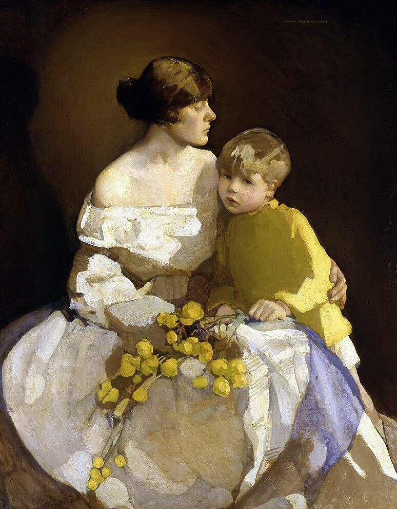 Little Brother